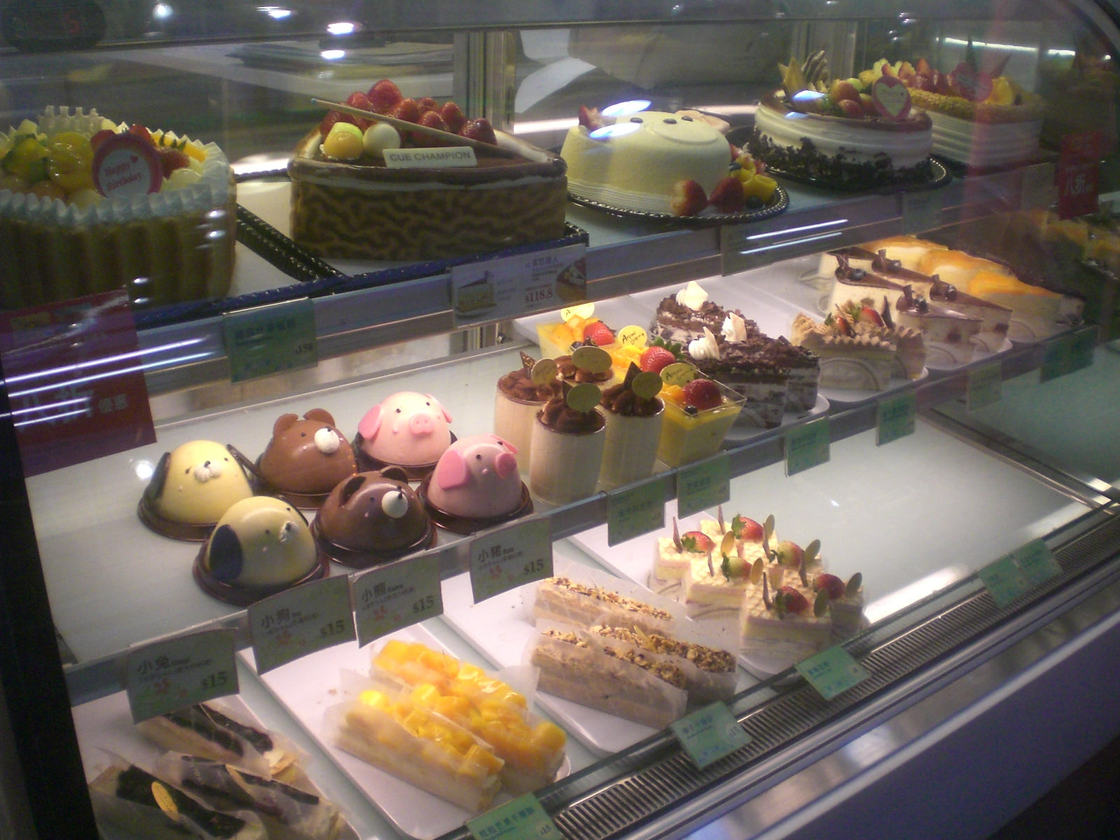 尖沙咀天星碼頭